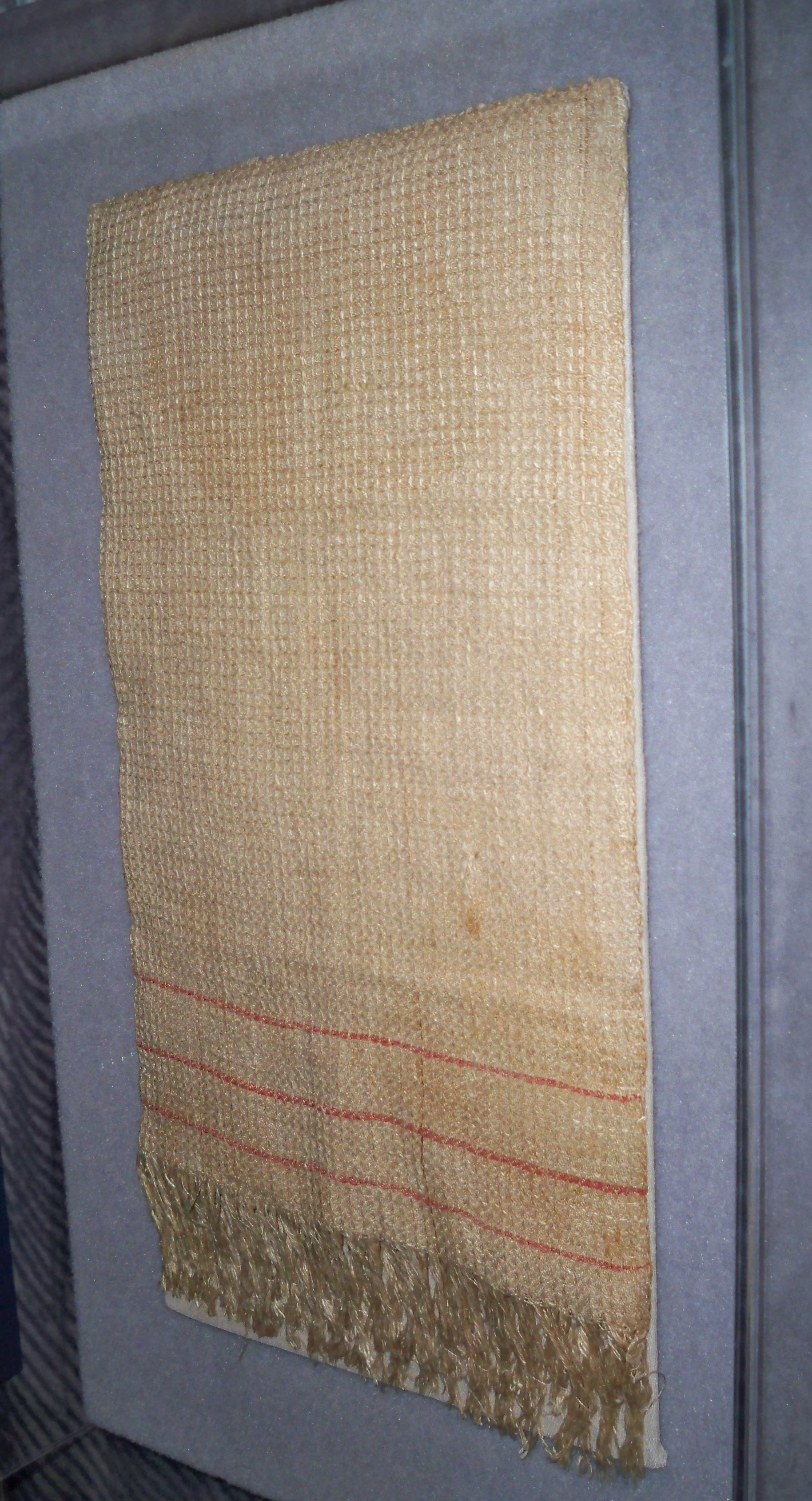 The flag used by the Confederate army to surrender to the American army in the U.S. Civil War.